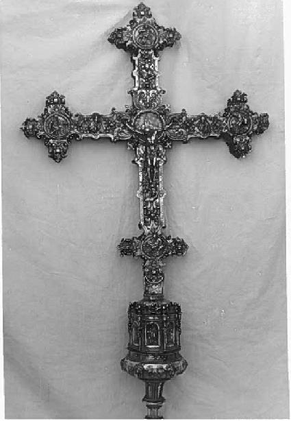 Processional cross of San Martin del Valle (Palencia, Castile and León).